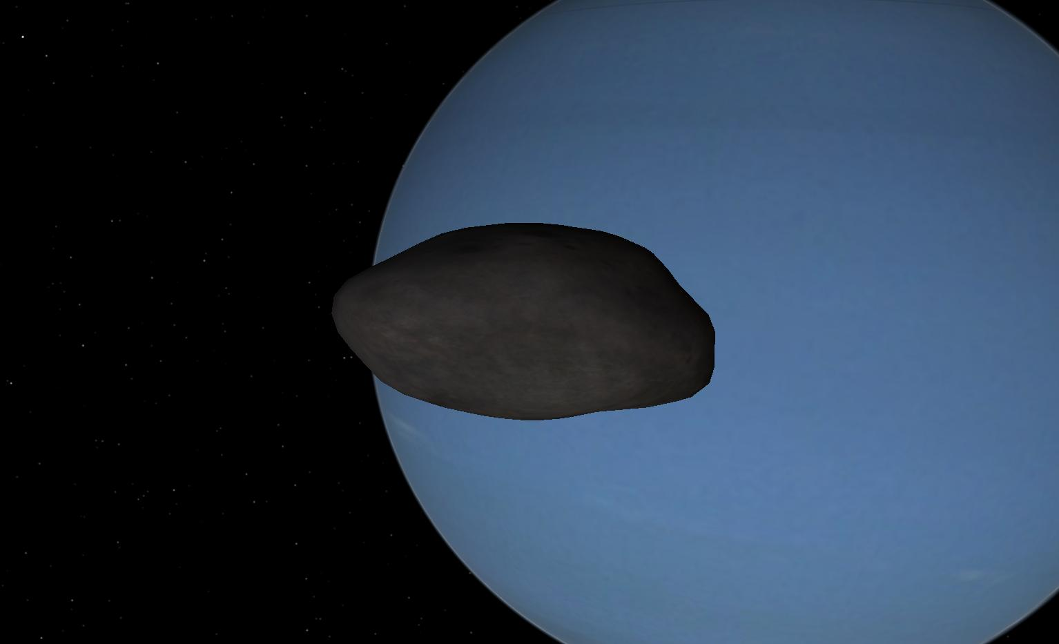 A simulated view of Thalassa orbiting Neptunein proper position. Creating using Celestia. attribution: --JiFish(Talk/Contrib)